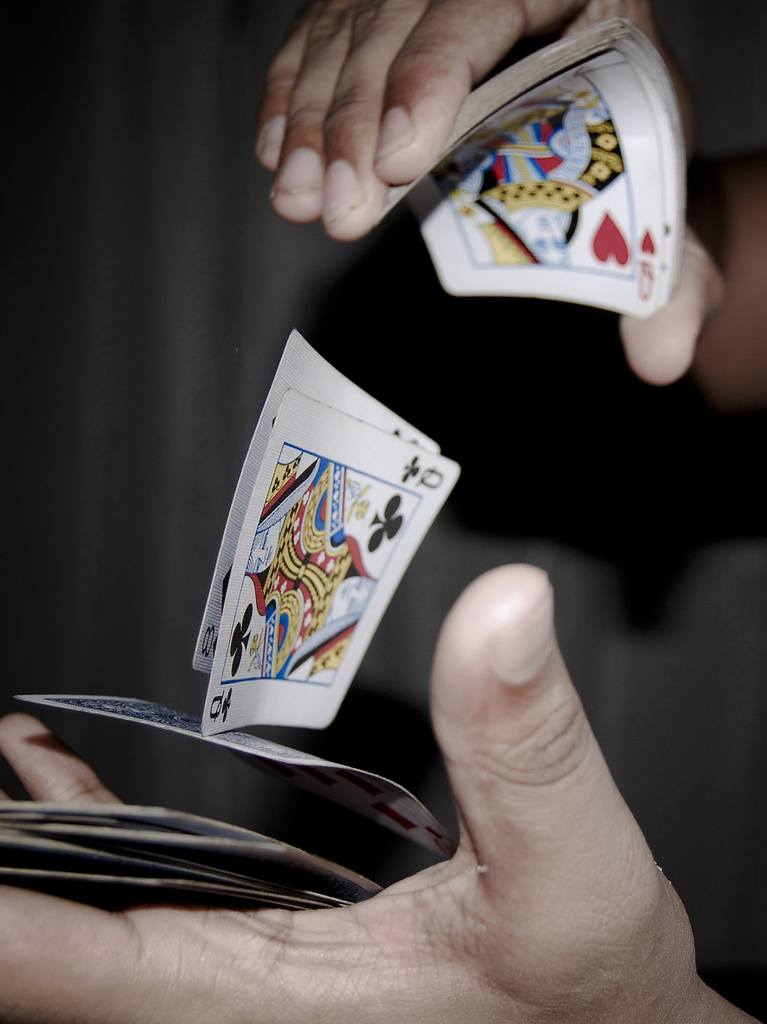 text at flickr: "The camera was set up on a tripod, and i had to do this several times with the self timer put on. I think i attempted this for almost an hour, and would've taken almost 100 shots.. well this is one of the best..." Performing a card flourish named spring